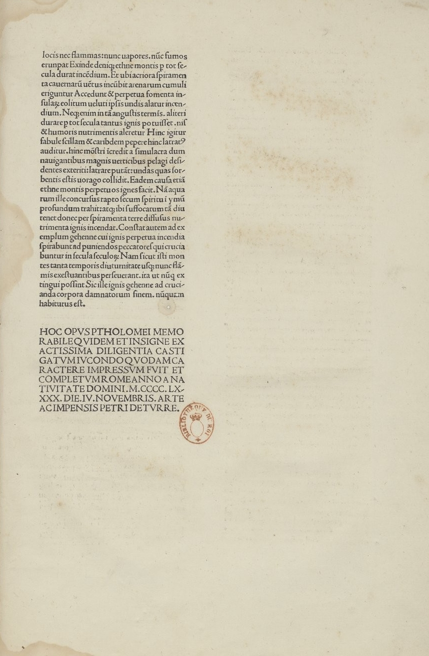 Opus Ptholomei. Rome, 1490. Colophon